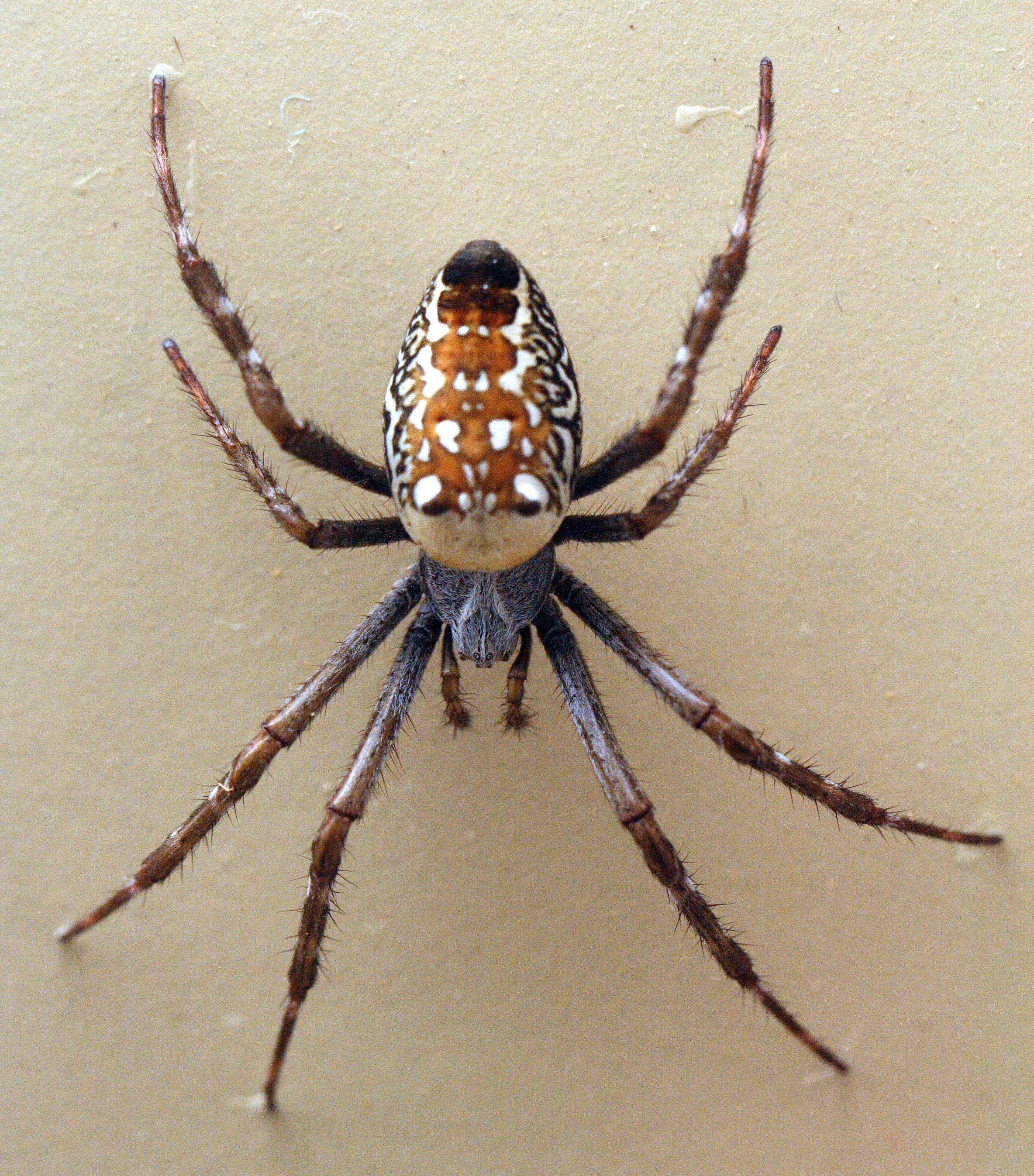 Specimen in the Australian Museum spider display.